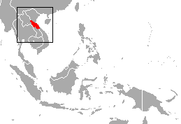 Southern White-cheeked Gibbon (Nomascus siki) range